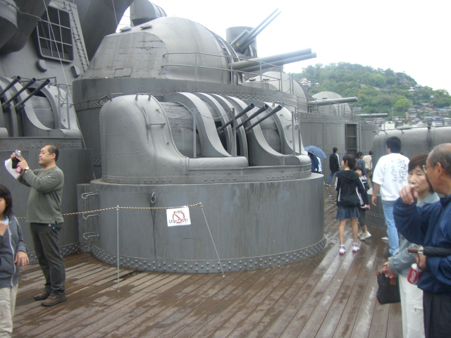 type96 25mm-anti-air-gun with shield, Copy of battleship Yamato used in the film "Otoko-tachi no Yamato" 2005 japan